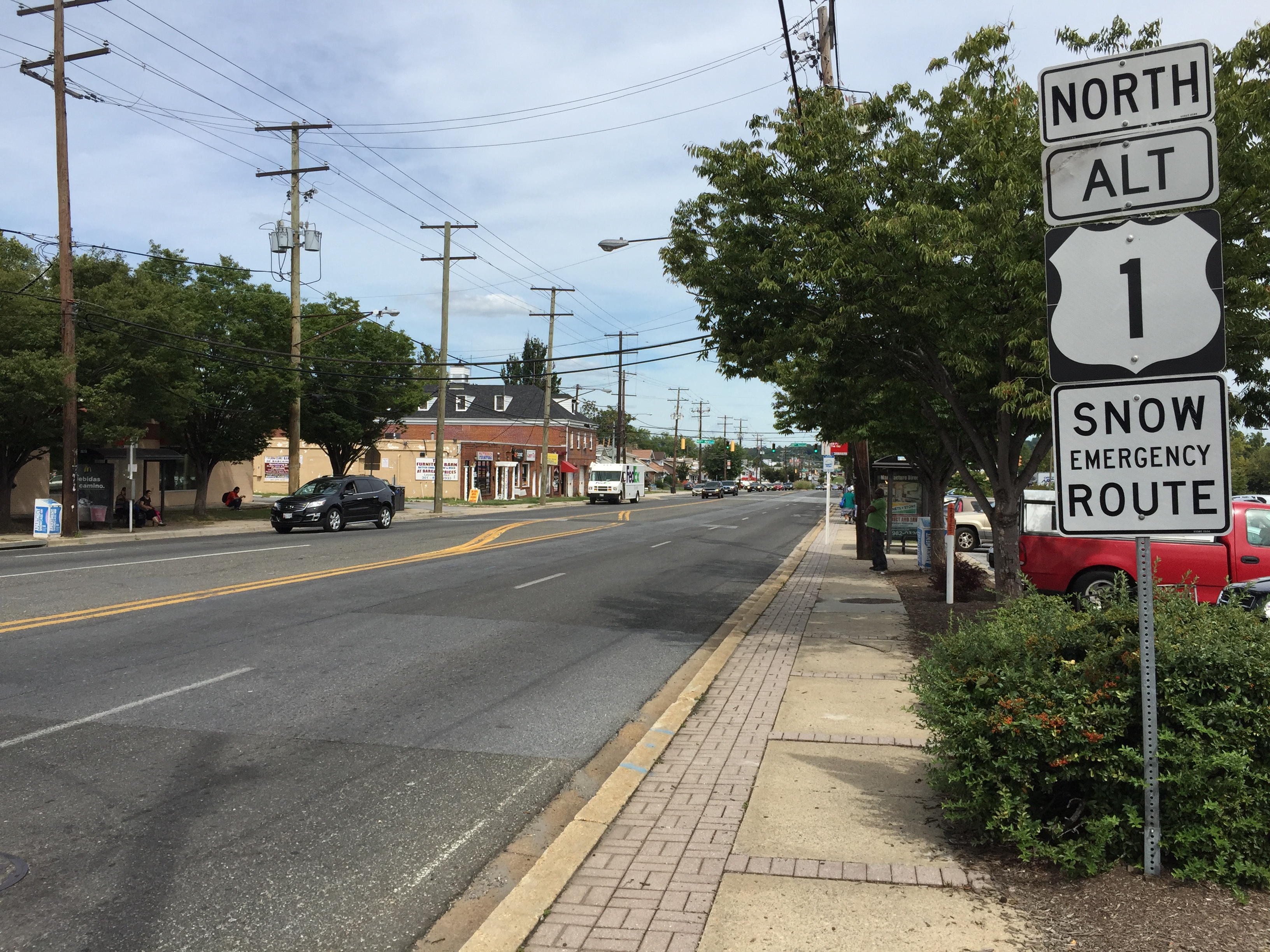 View north along U.S. Route 1 Alternate (Bladensburg Road) at Maryland State Route 208 (38th Street) on the border of Colmar Manor and Cottage City in Prince George's County, Maryland